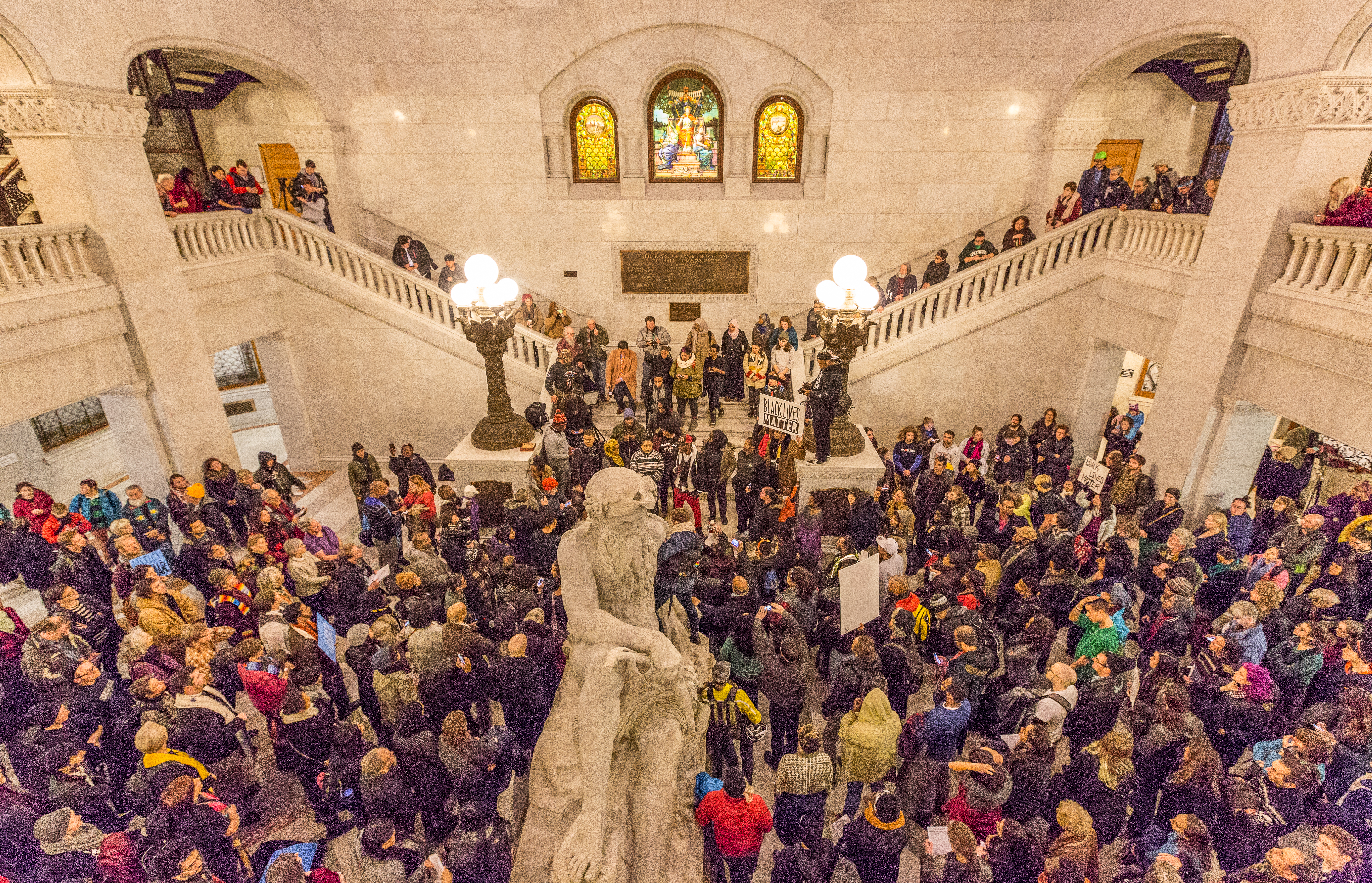 Black Lives Matter supporters and allies gather inside the Minneapolis City Hall rotunda on December 3, 2015, after an early morning raid and eviction of demonstrators occupying the space outside the Minneapolis Police Department's 4th Precinct, following the police shooting death of Jamar Clark. Photo: Tony Webster